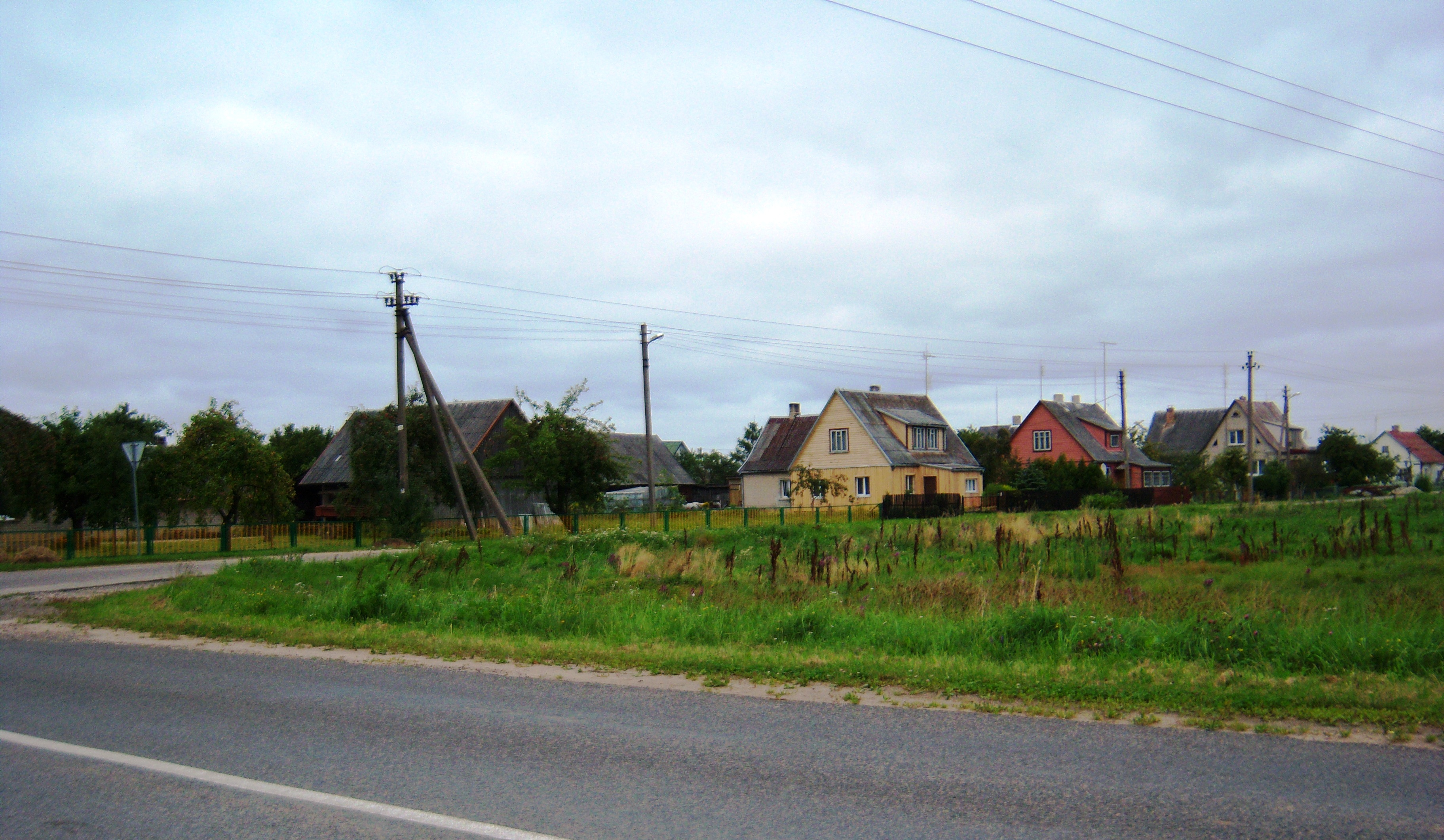 Vilkija village, Kaunas district, Lithuania